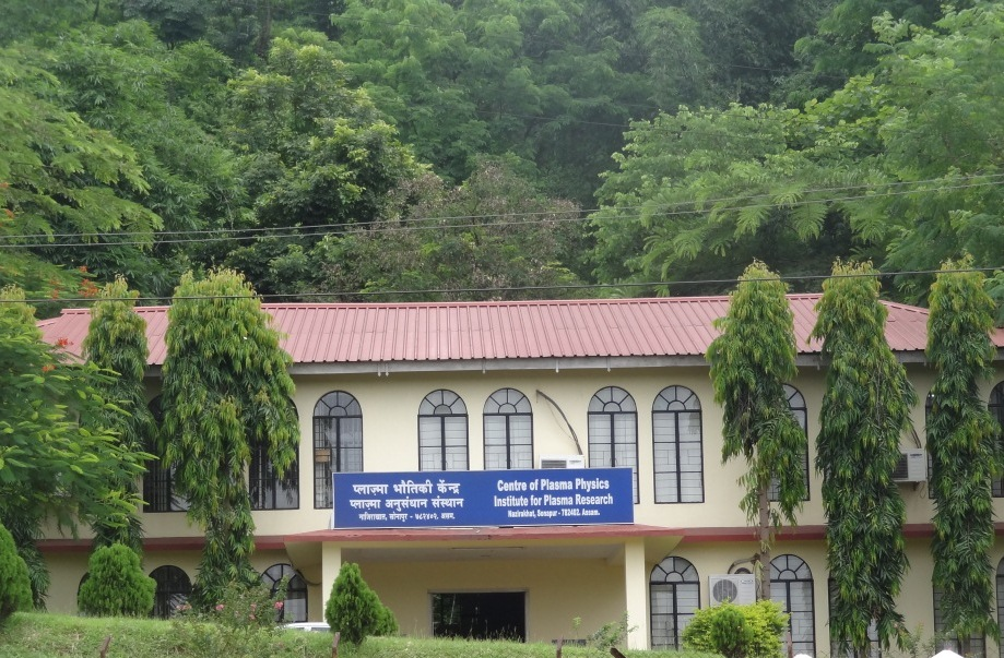 Main Admin building of CPP-IPR